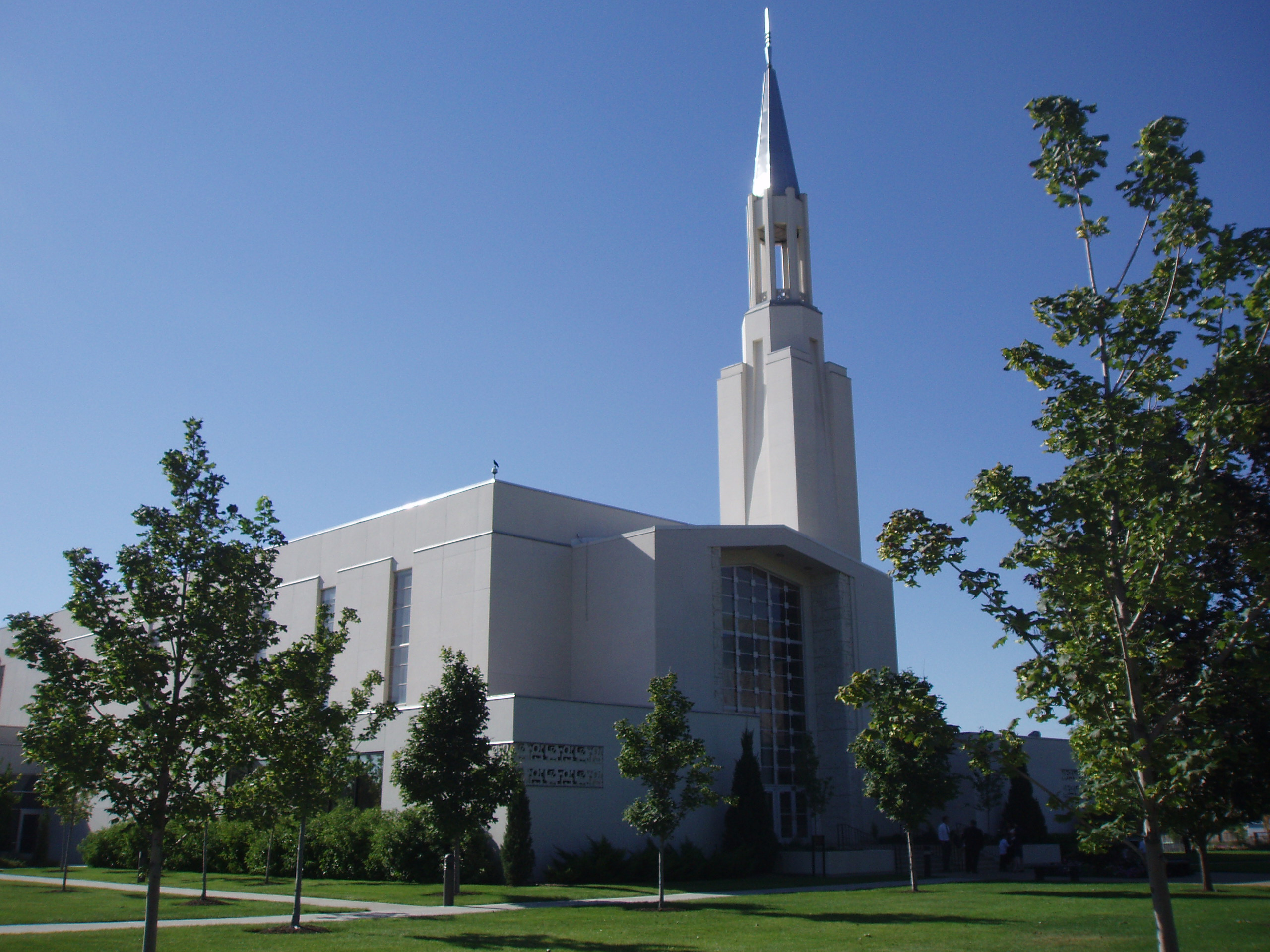 The Ogden Utah Tabernacle, a religious building in Ogden, Utah, United States.